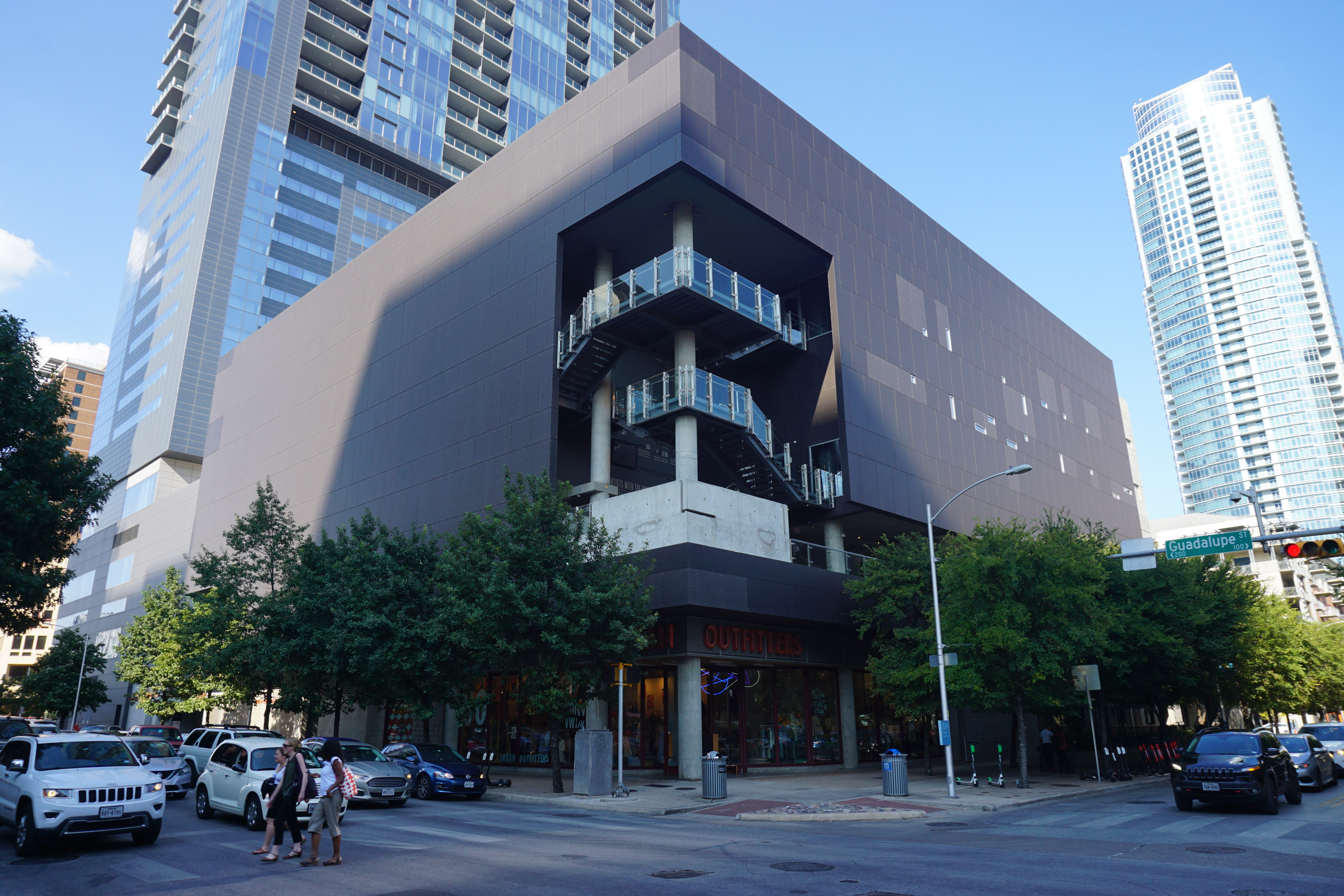 Block 21 in Austin, Texas (United States).